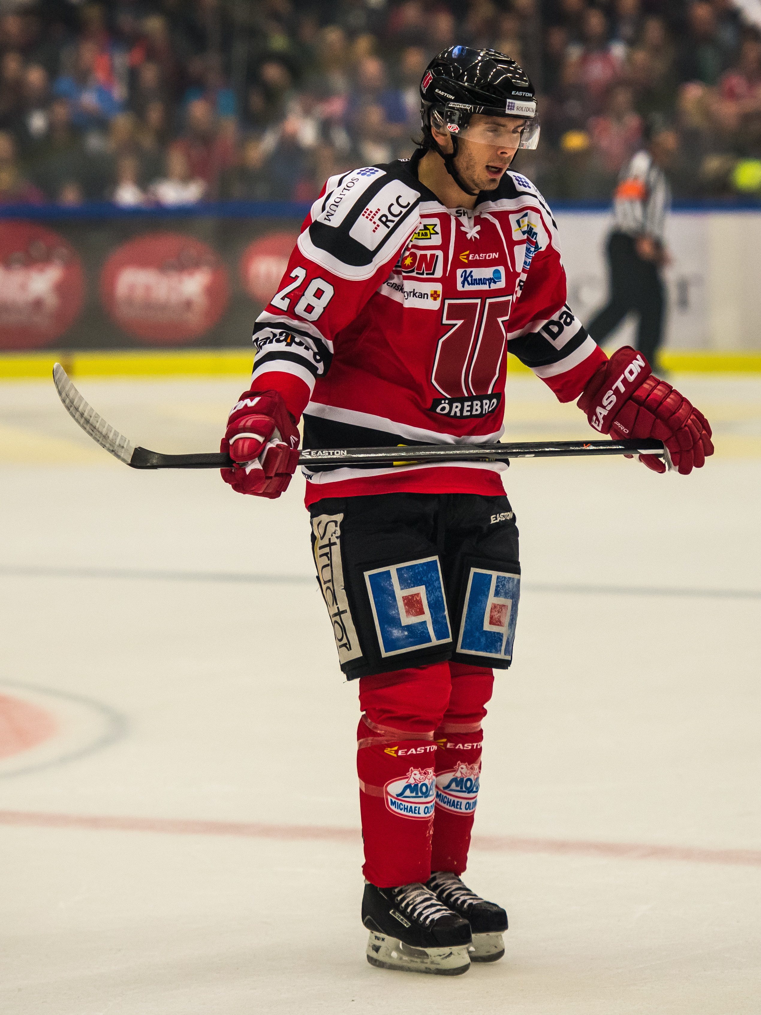 Tim Wallace playing for Örebro HK in SHL (Sweden's highest league) against MODO Hockey in Behrn Arena 2013-10-05.